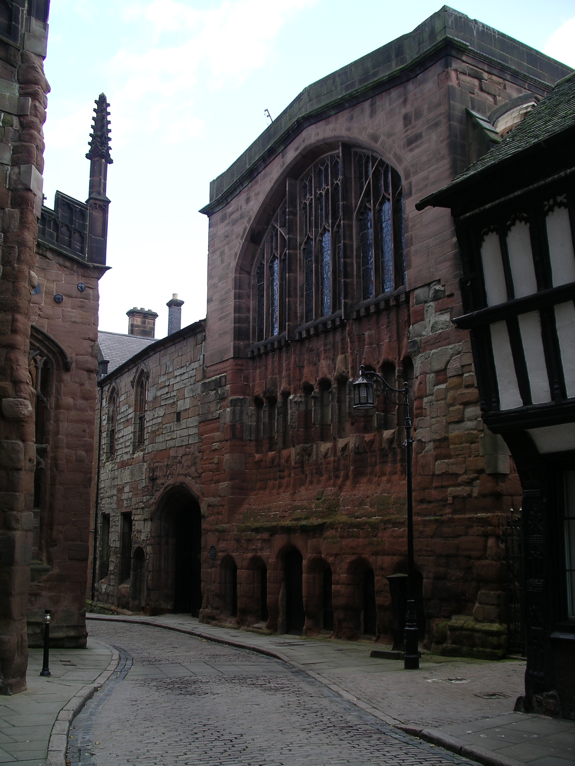 St Mary's Hall, Coventry, England. The entrance on Bailey Lane.